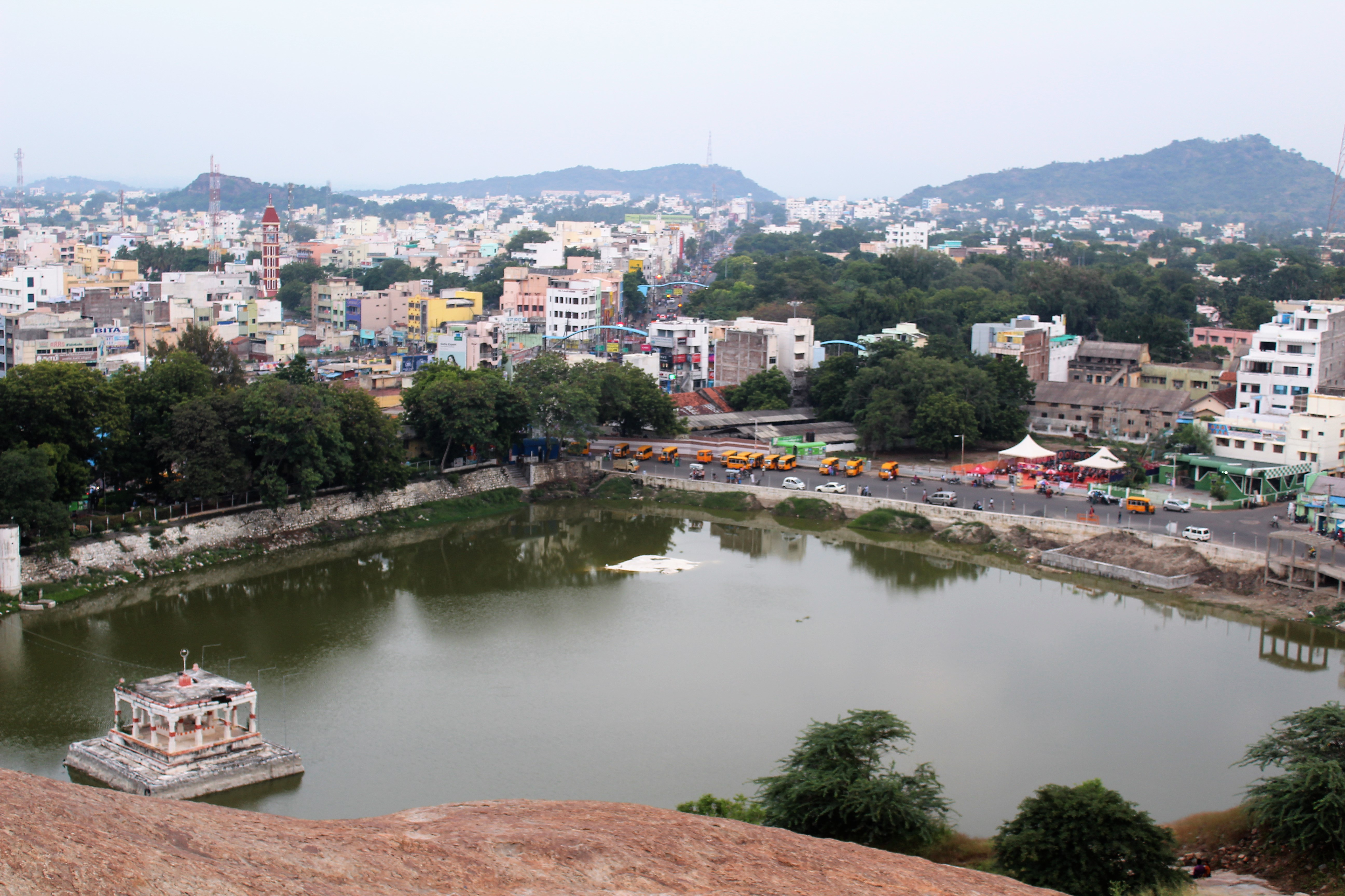 Namakkal Fort